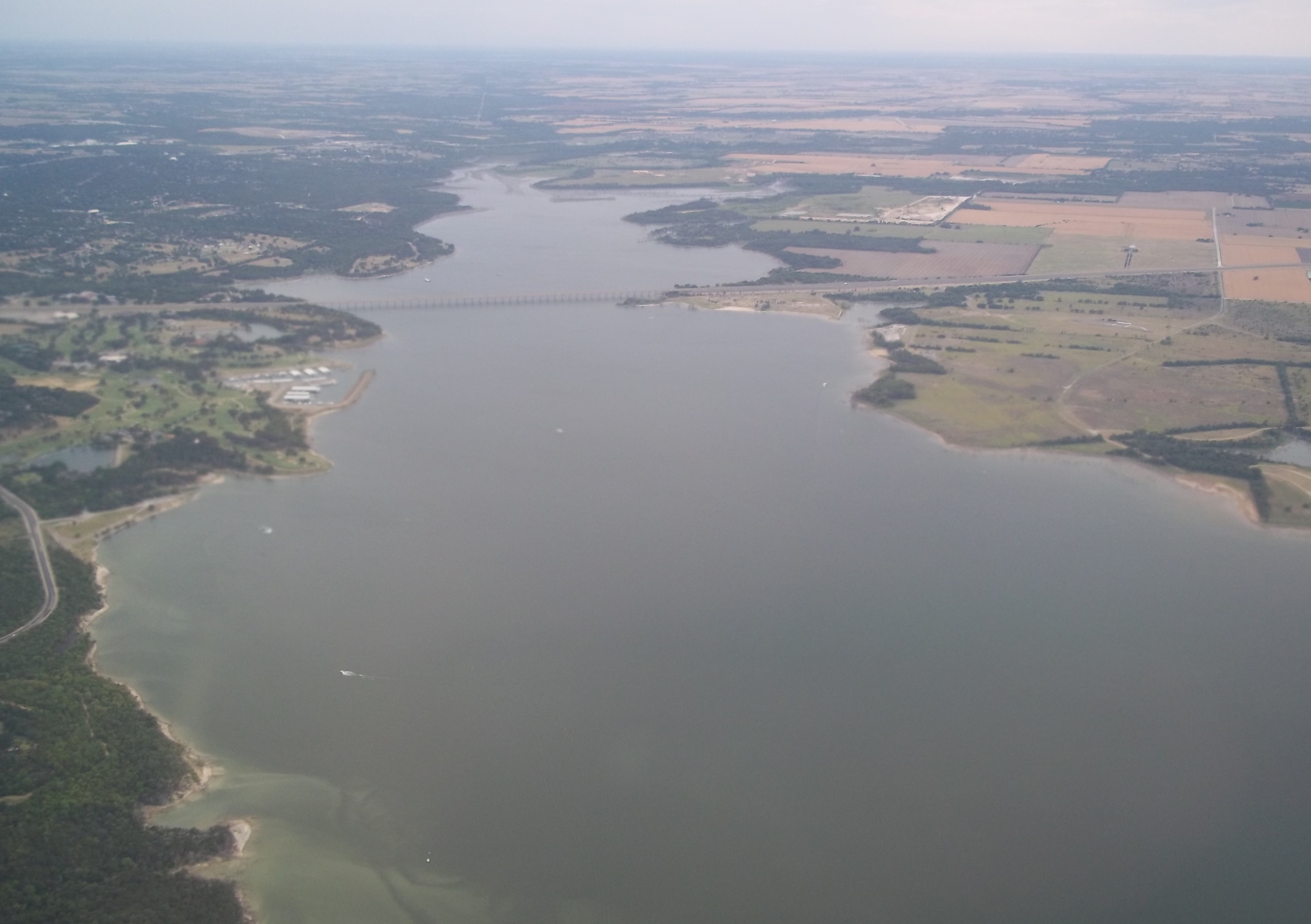 Lake Waco - southern portion with Twin Bridges in view